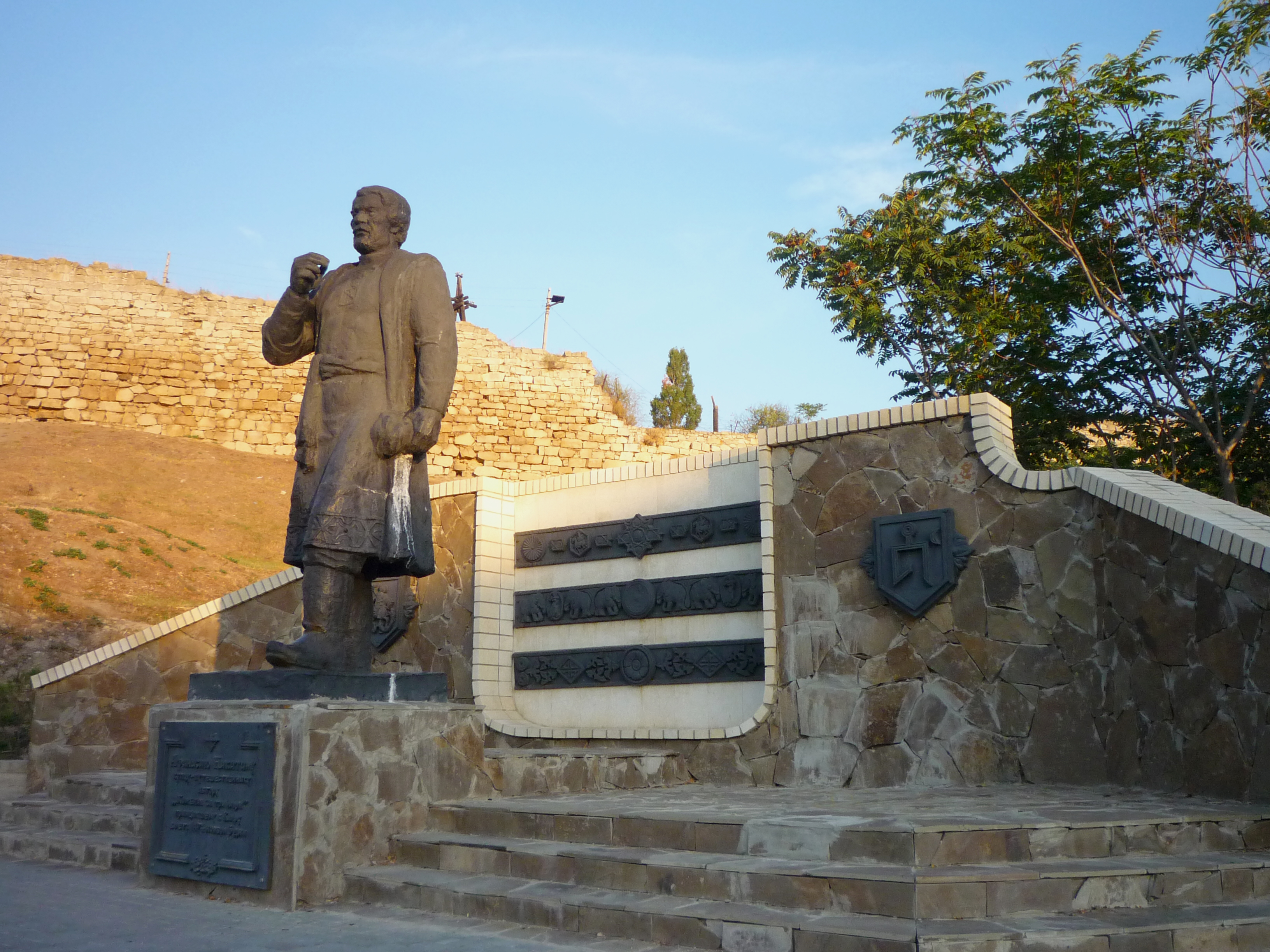 Monument of a Russian merchant Afanasy Nikitin, one of the first Europeans to travel to and document his visit to India. Monument is situated in Theodosia, Crimea, Ukraine.